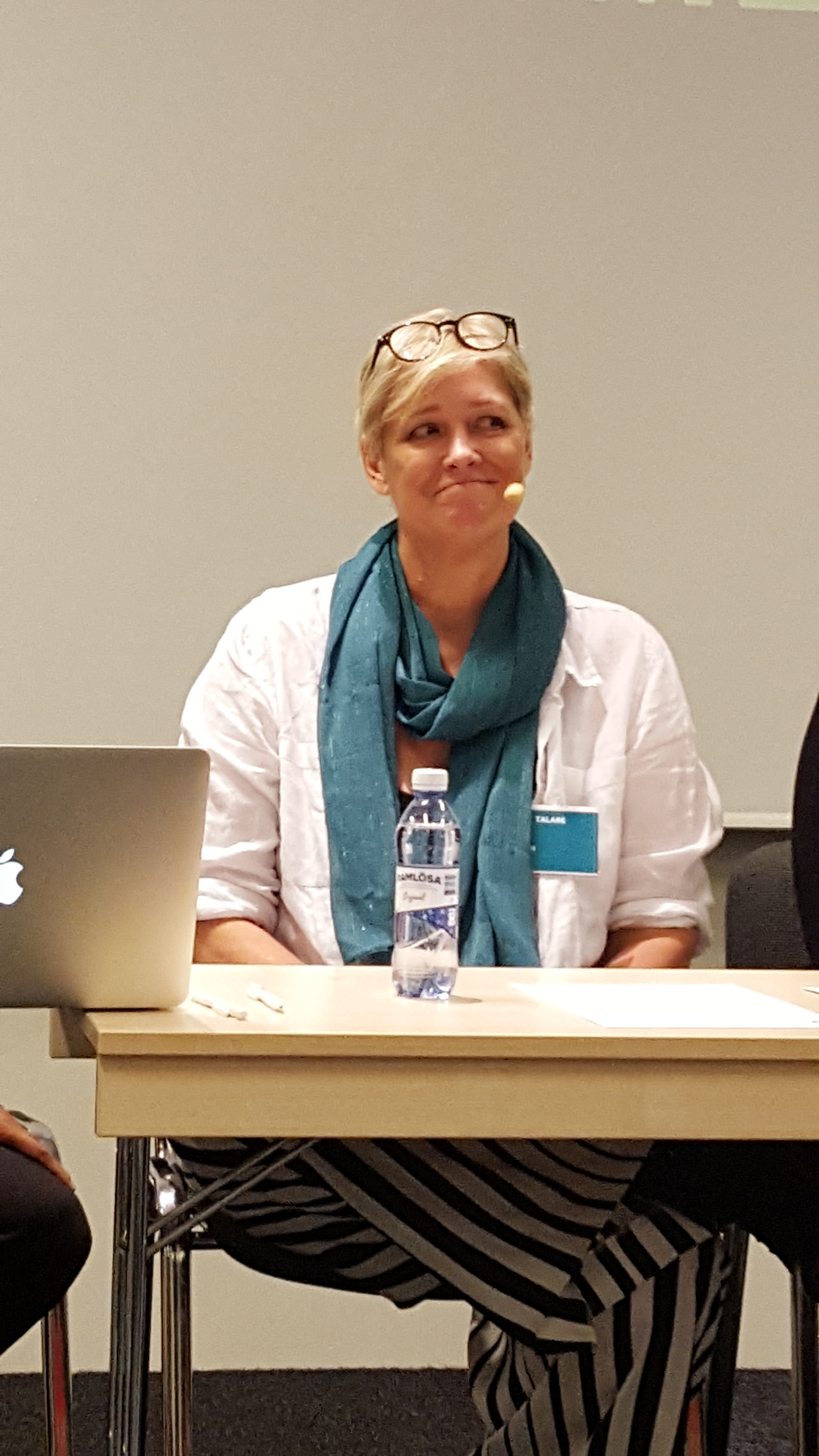 Swedish voice actress Annica Smedius at Comic Con Stockholm, Sweden.